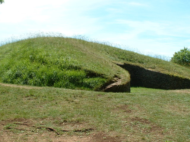 Belas Knap Long Barrow. Restored in 1928, 52 m long, 18 m wide at the north end. The remains of 30 people were found in the excavations. The name Belas Knap means Beacon Mound.